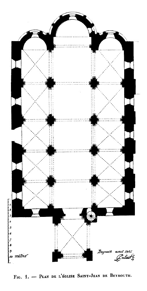 Al Omari Mosque, Beirut, former Cathedral St John